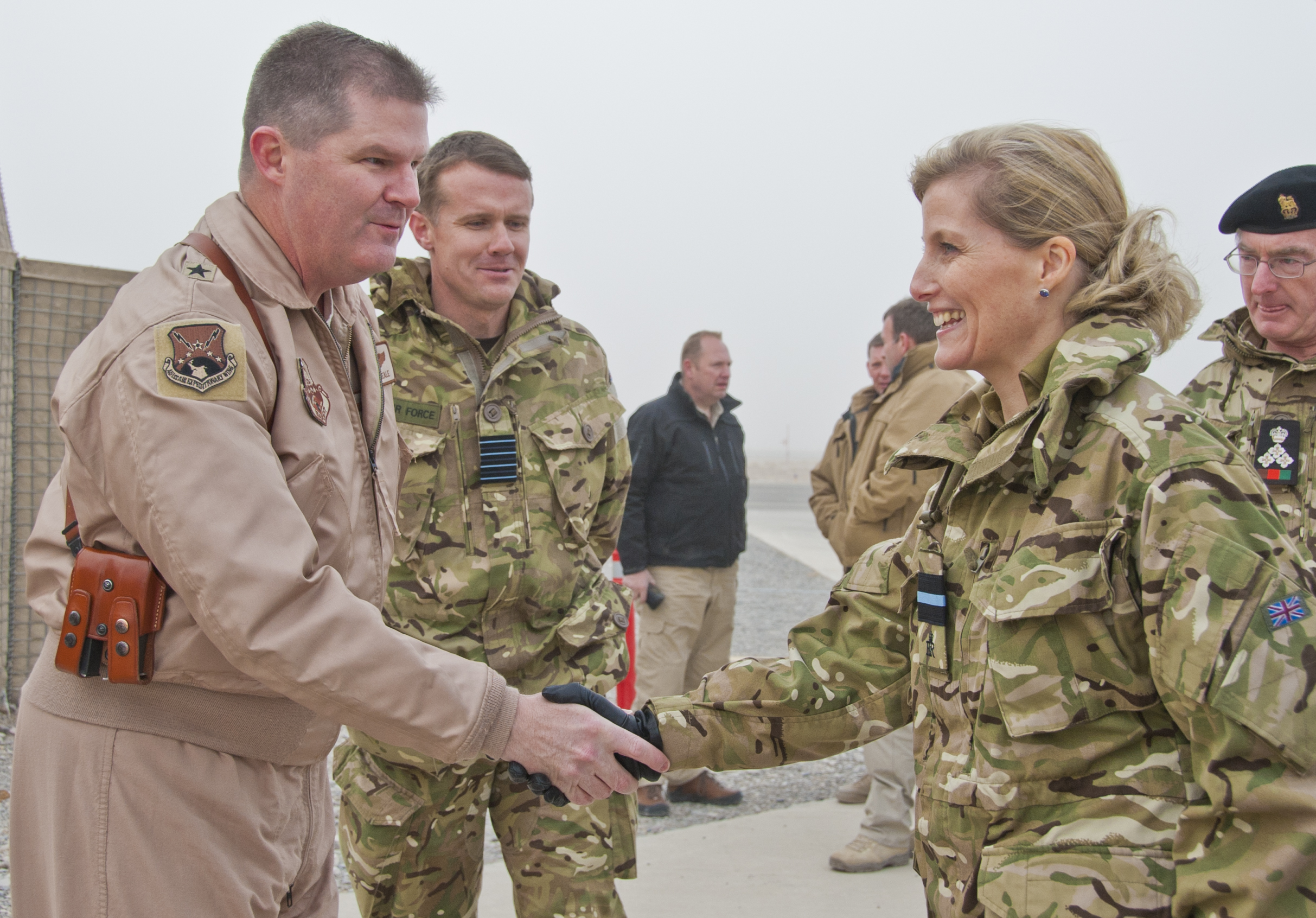 Sophie, Countess of Wessex, shakes hands with Brig. Gen. Thomas Deale, 451st Air Expeditionary Wing commander, during her visit to the 62nd Expeditionary Reconnaissance Squadron at Kandahar Airfield, Afghanistan. She and her husband, Prince Edward, visited the 62nd ERS to learn more about the mission of the squadron and to visit with the Royal Air Force members embedded with the unit. Princess Sophie is wearing her honorary air commodore's uniform.